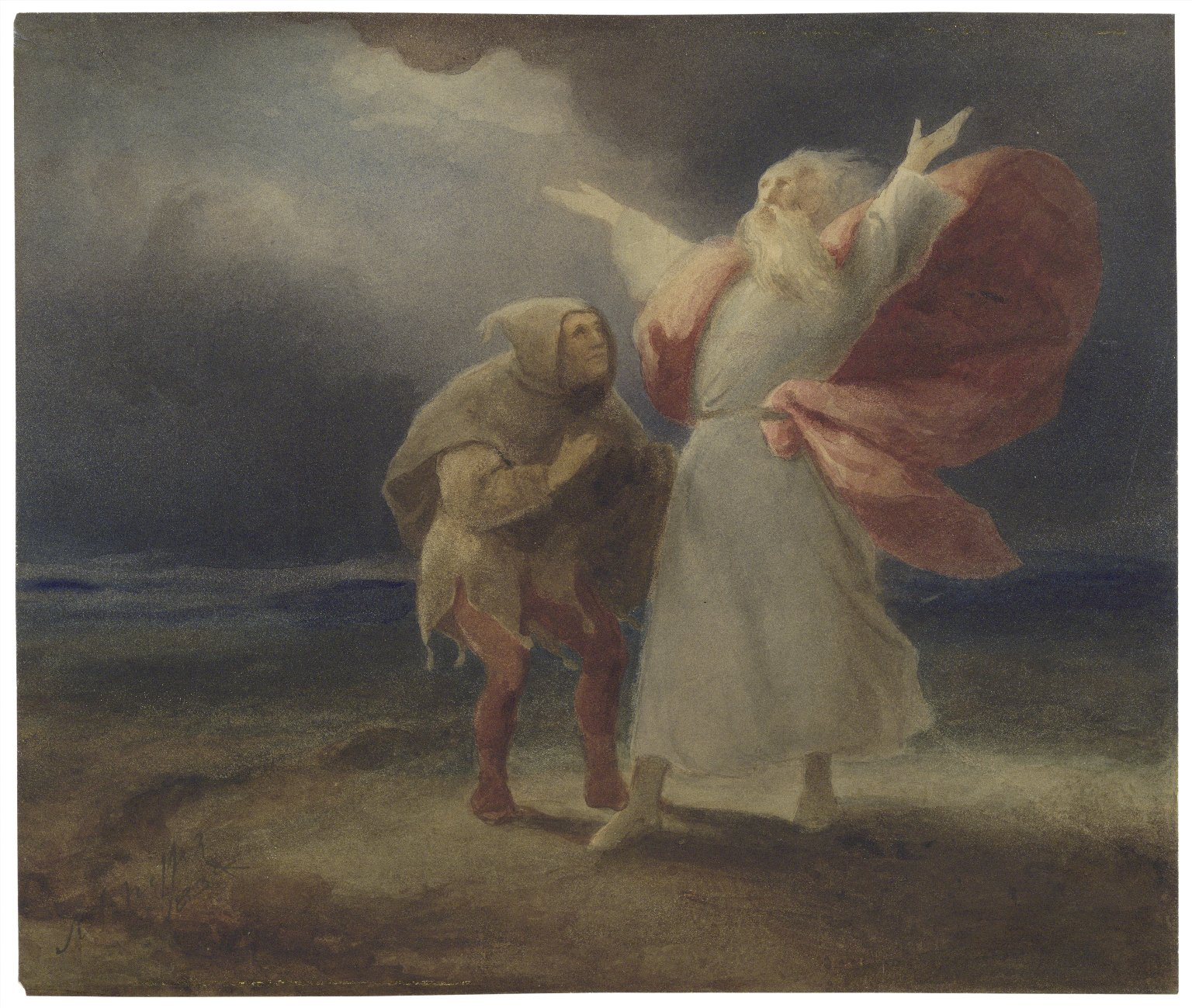 A watercolor of King Lear and the Fool from Act III, Scene ii of King Lear